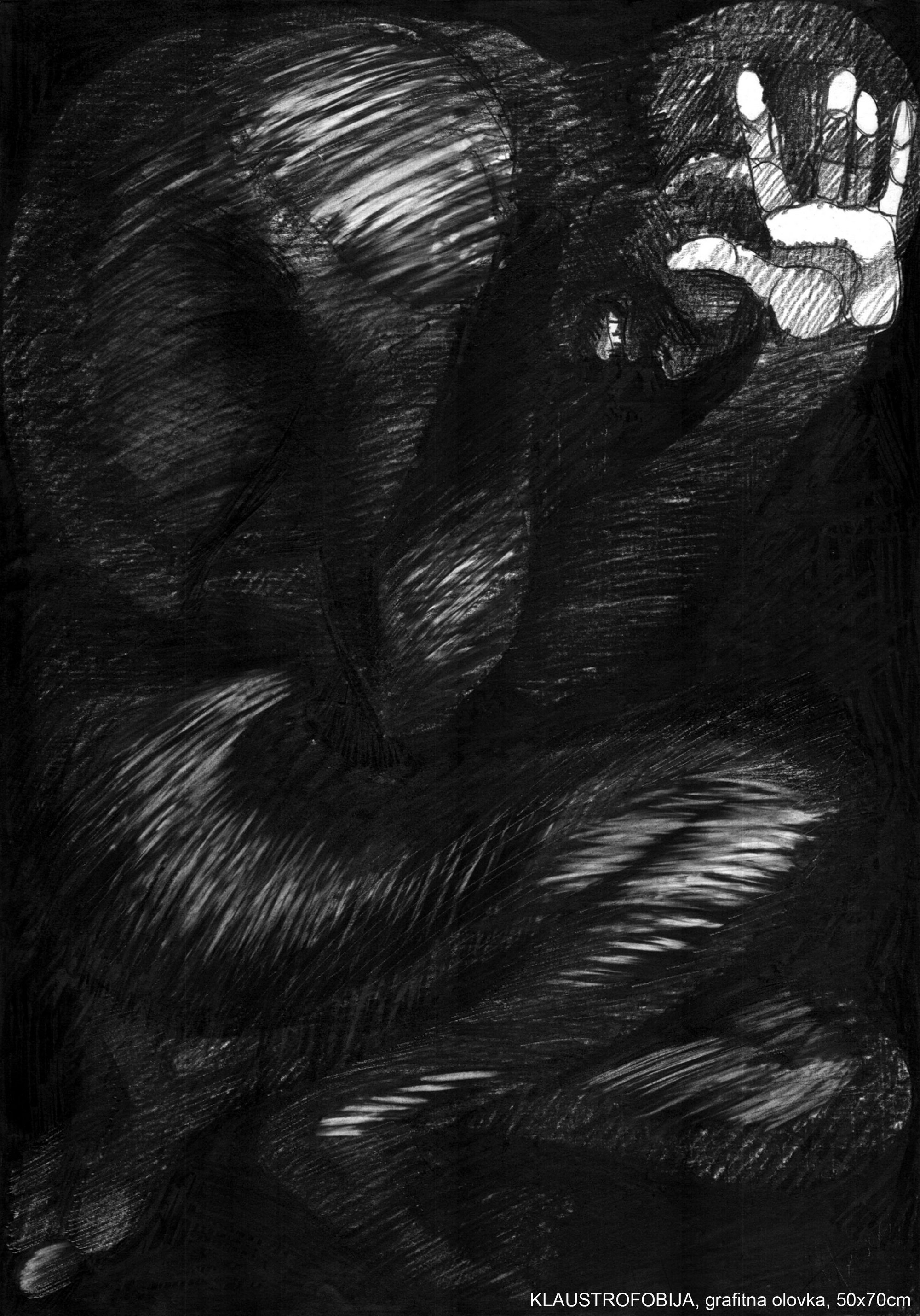 Claustrophobia